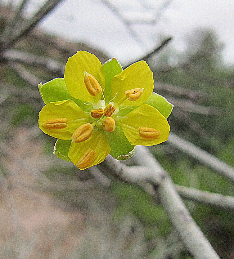 The flower of one of the species known as Retamo. In context at